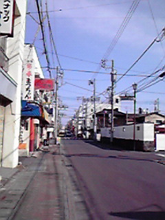 I, contributor took a picture of 2 chome in Sakura town, Tsuchiura City, Ibaraki Prefecture, Japan. It is known as a red-light area.